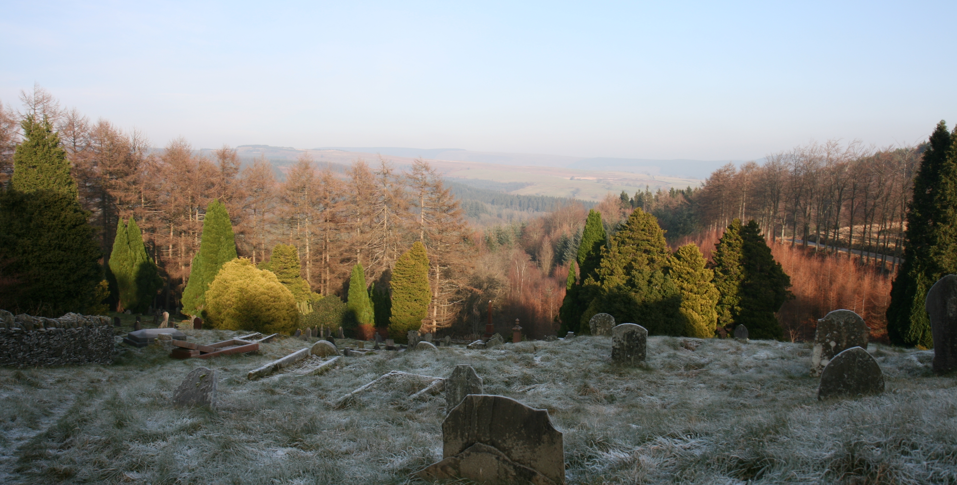 Llanwonno Forestry in Winter, taken from St Gwynno's Church